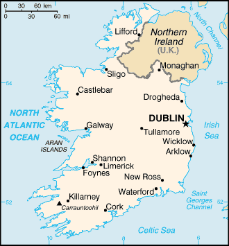 A map of Ireland, showing major towns.